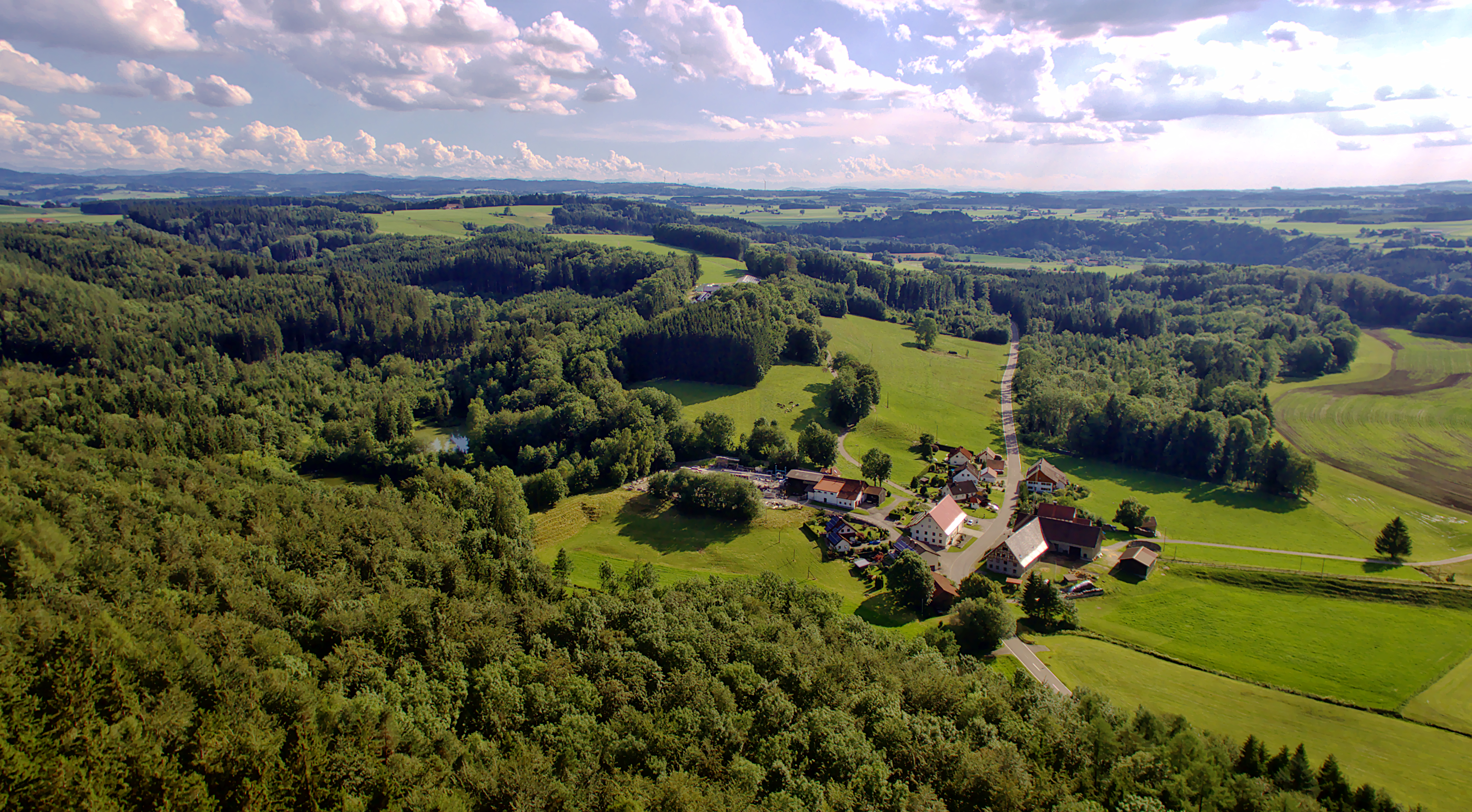 Rothenstein near Bad Groenenbach